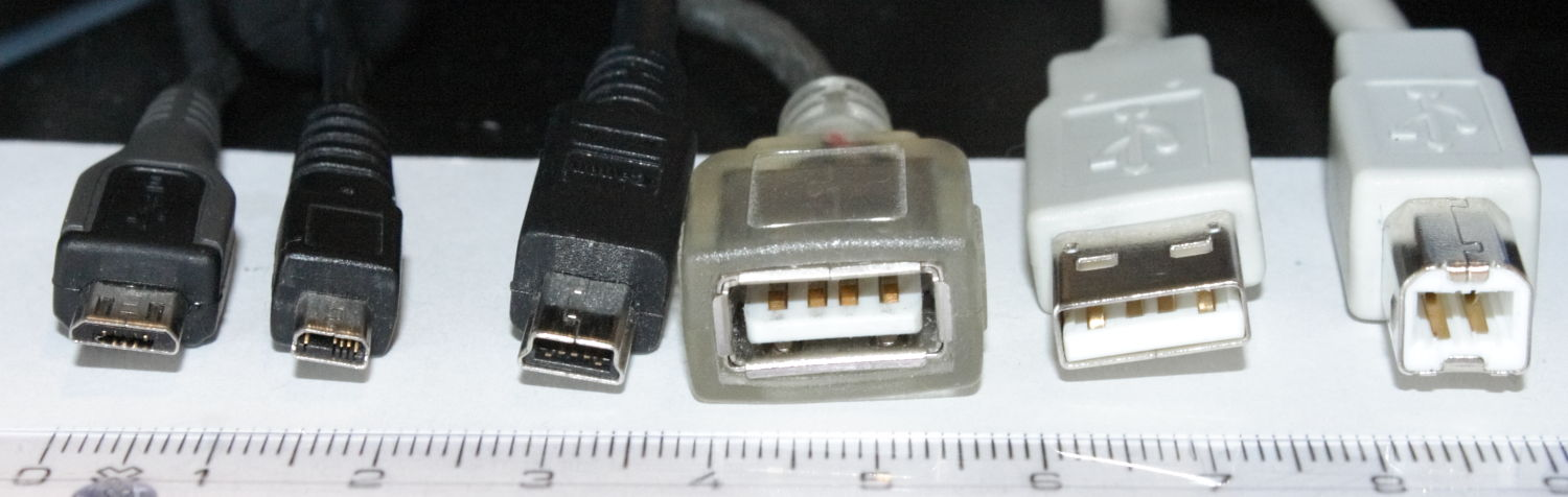 Different usb connectors. From left to right: (1) male Micro USB B-Type, (2) proprietary UC-E6, (3) male Mini USB (5-pin) B-type, (4) female A-type, (5) male A-type, (6)male B-type. Shown with a centimeter ruler. Female A-type connector (4th from left) is "upside down" to show the pins.